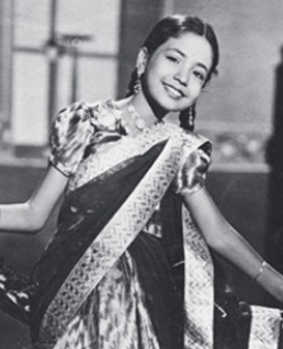 Baby Meena as child artist